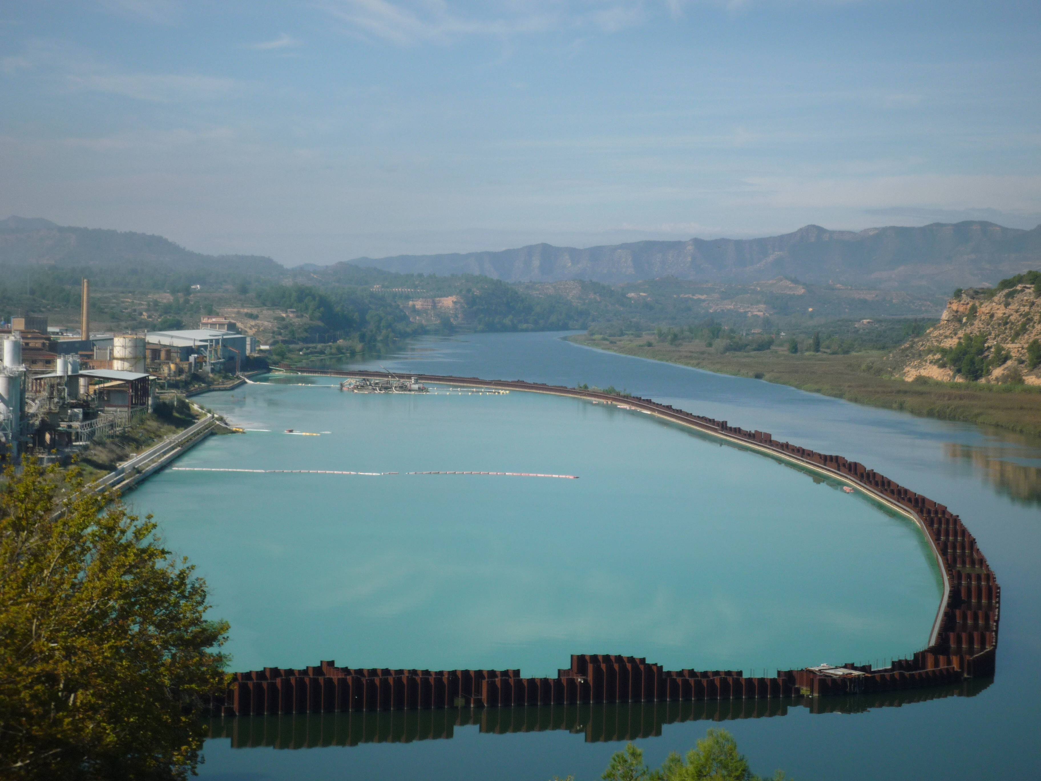 Decontamination works in the Flix dam. In the center, area isolated with dovetailed plates. In the left, electrochemical factory. In the right, Natural Reserve of Sebes.